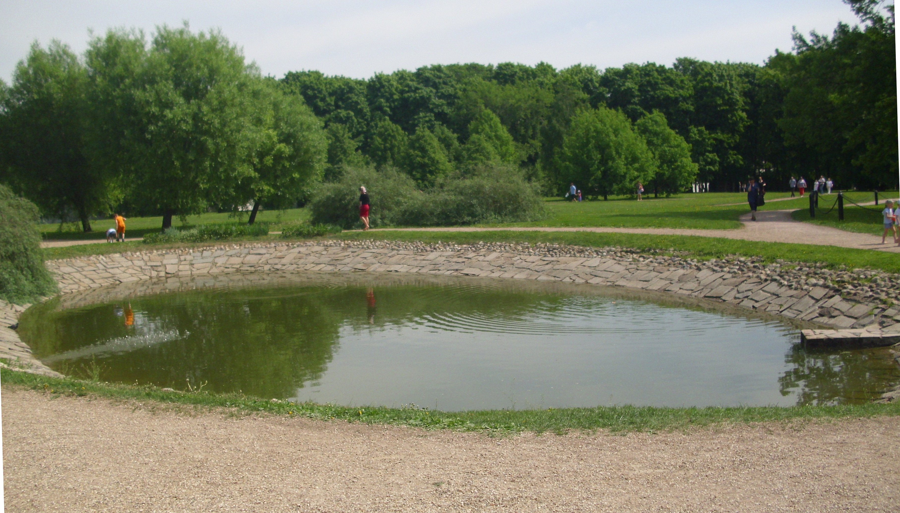 Пруд у Аллеи Влюбленных. Вид на север